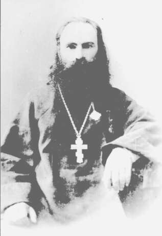 A photo of Vasyl (Lypkivskiy) as a young priest